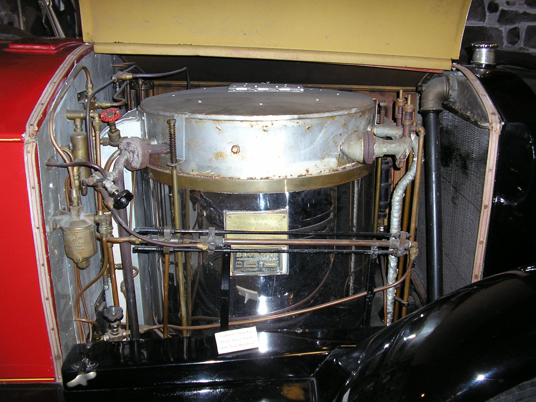 1924 Stanley Steamer Serie 740 Powered by a twin cyliner, double acting steam engine (under the floor in the rear). A kerosene/parafin oil heated boiler in the front giving 20-30 hp. Engine power 100 bhp. Price: 2750 USD. Weight 1774 kg. This car was fitted with more modern headlights in the 1970s to be able to pass Dutch vehicle inspections.